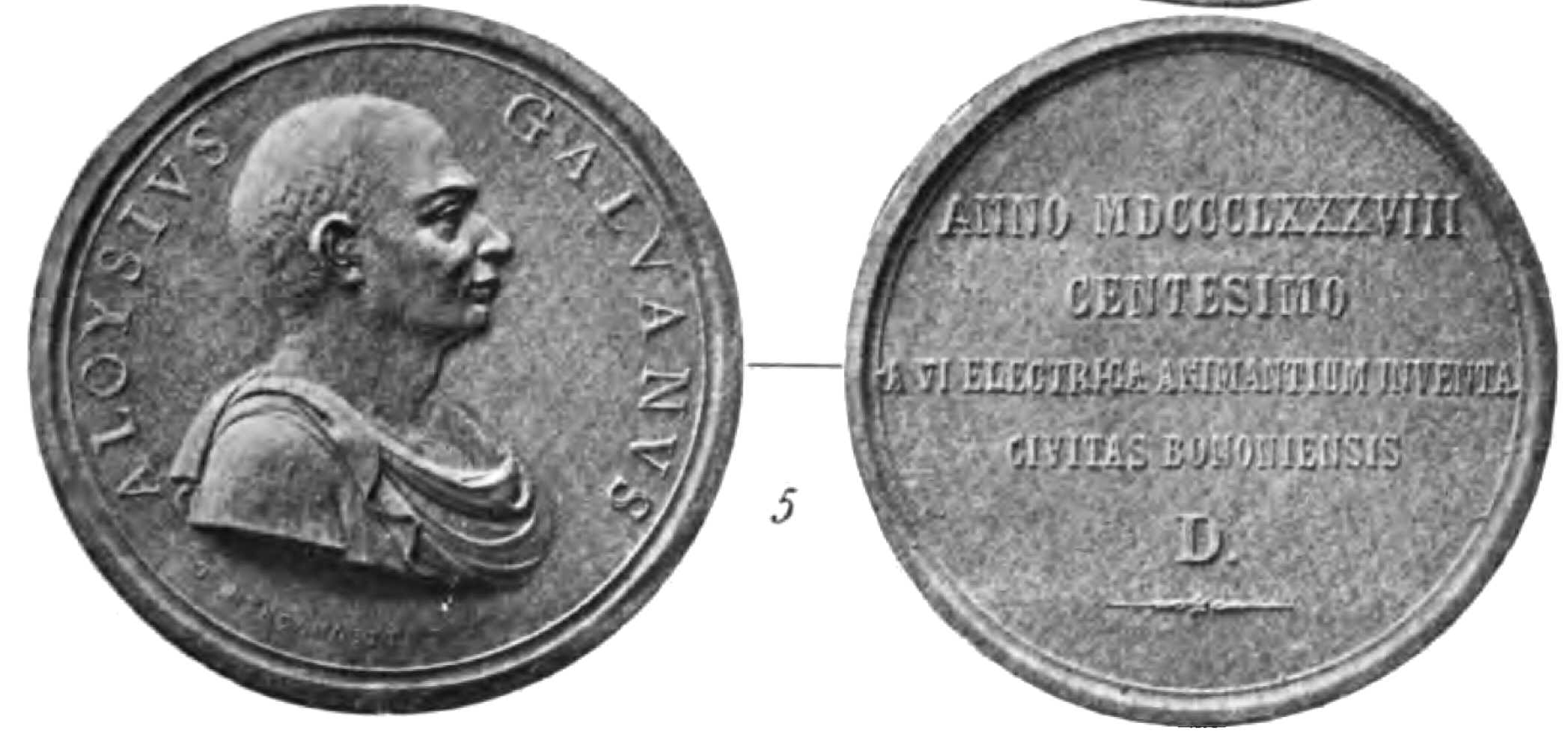 Medal in honour of Luigi Galvani 1889